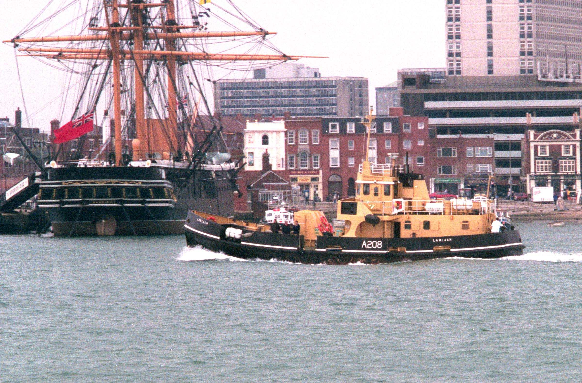 The Fleet Tender RMAS Lamlash passing HMS Warrior at Portsmouth, England